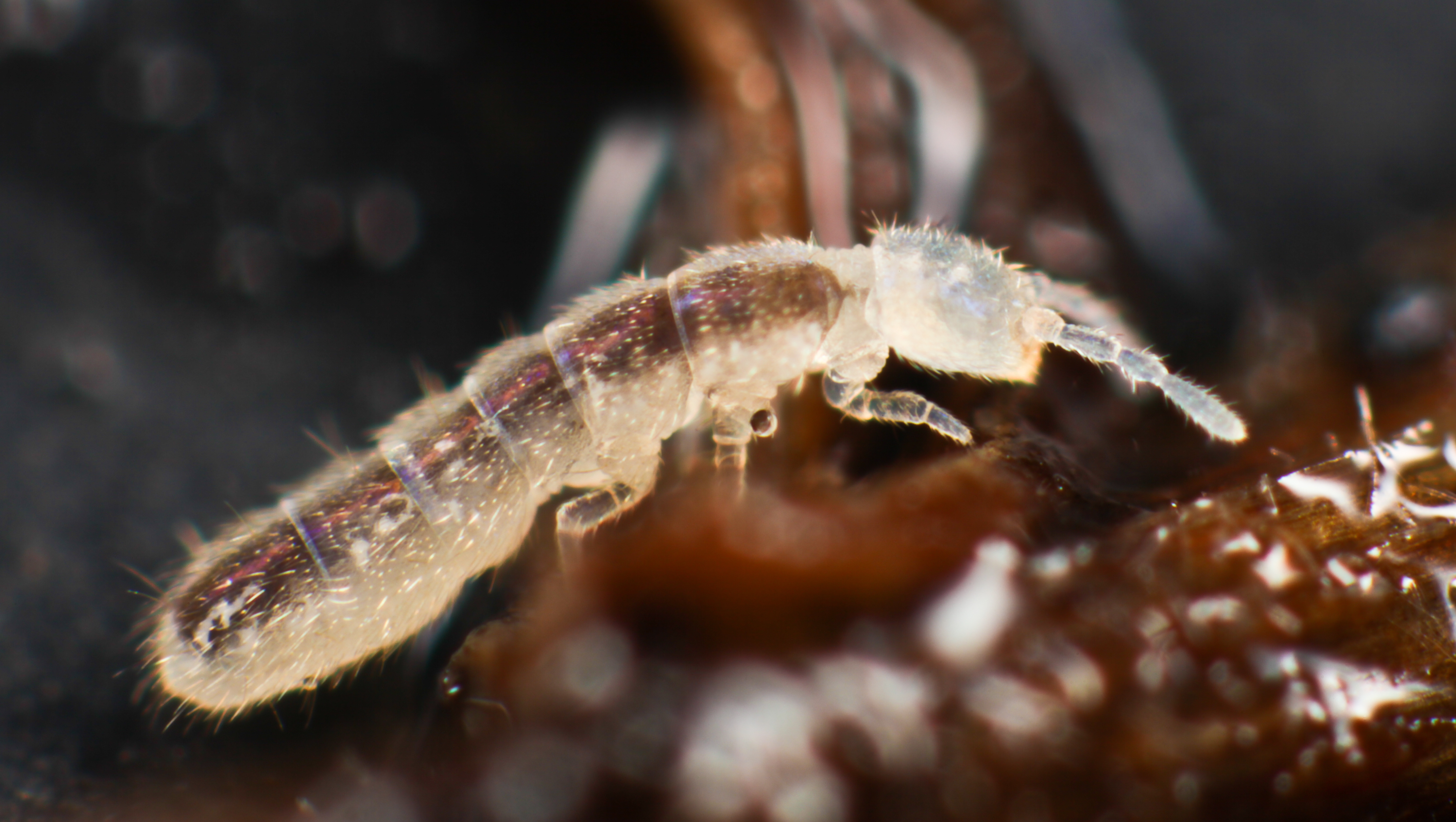 Folsomia candida from Littleton, England, United Kingdom.